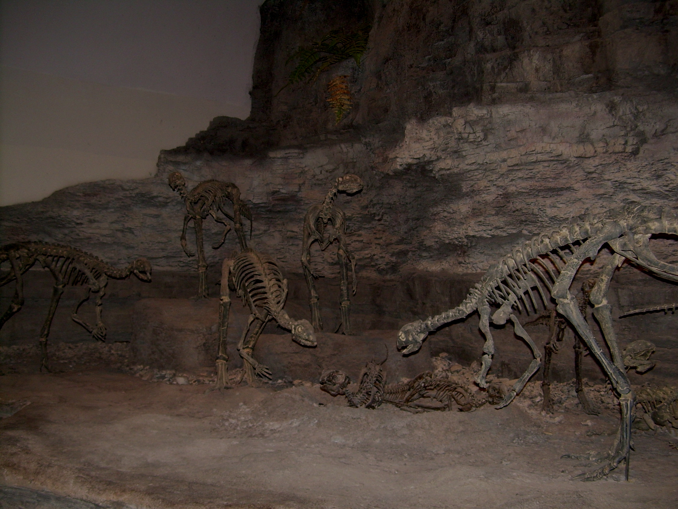 Photograph of fossil casts of several Othnielia rex skeletons (shown around a nest) taken at the North American Museum of Ancient Life.